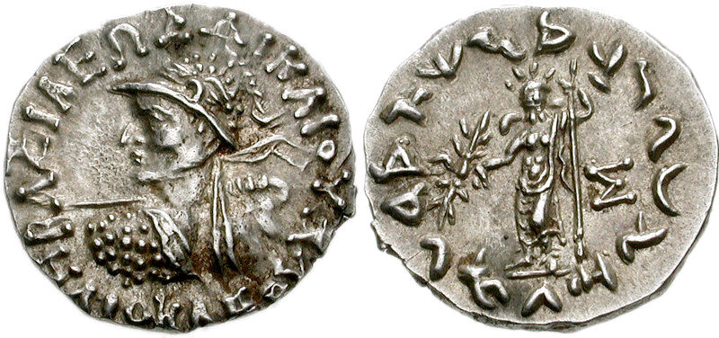 King Heliokles II with spear